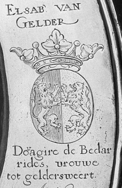 Wapen van Elsabe van Gelder, Vrouwe van Geldersweert